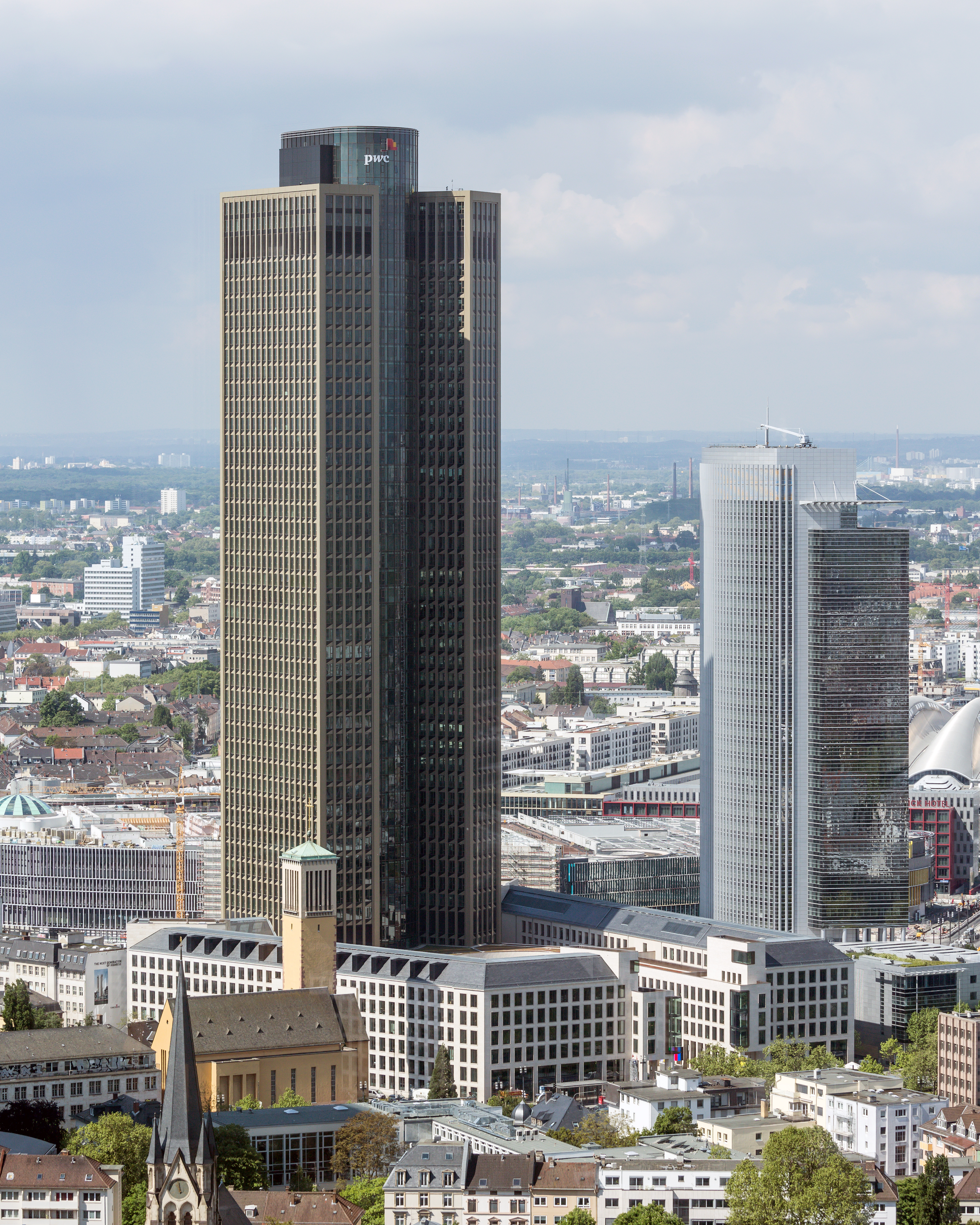 Frankfurt on the Main: Tower 185 as seen from the Deutsche-Bank-Hochhaus (Deutsche Bank Twin Towers)